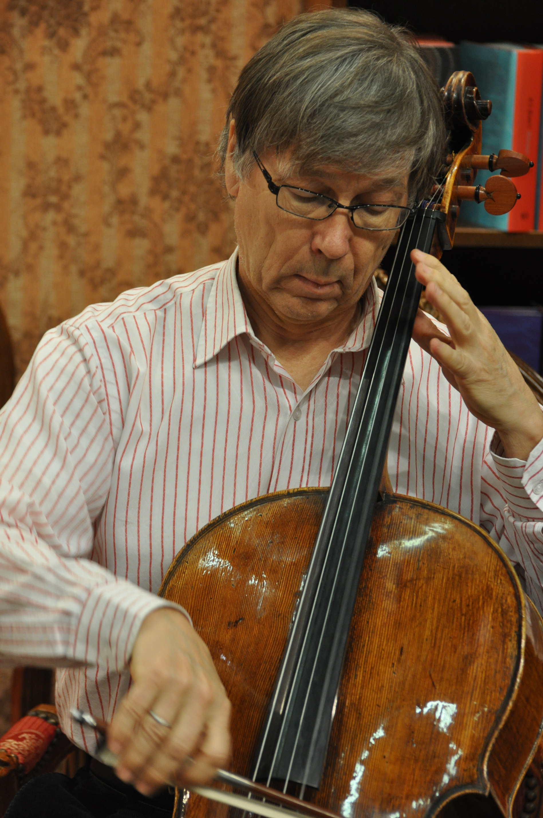 Finnish cellist Seppo Kimanen performing at Helsinki Book Fair, 2013.